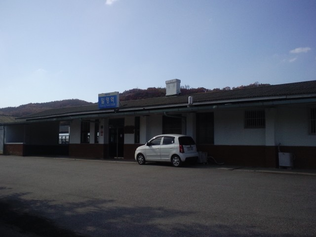 ilyeong station building